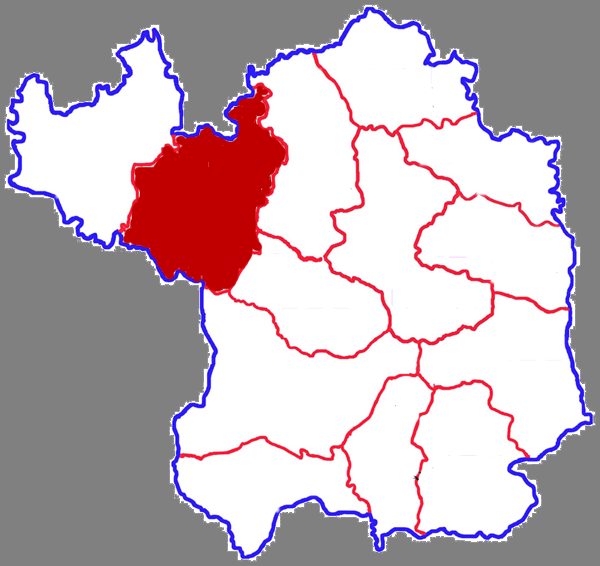 Location of Zhidan county in Yan'an city, China